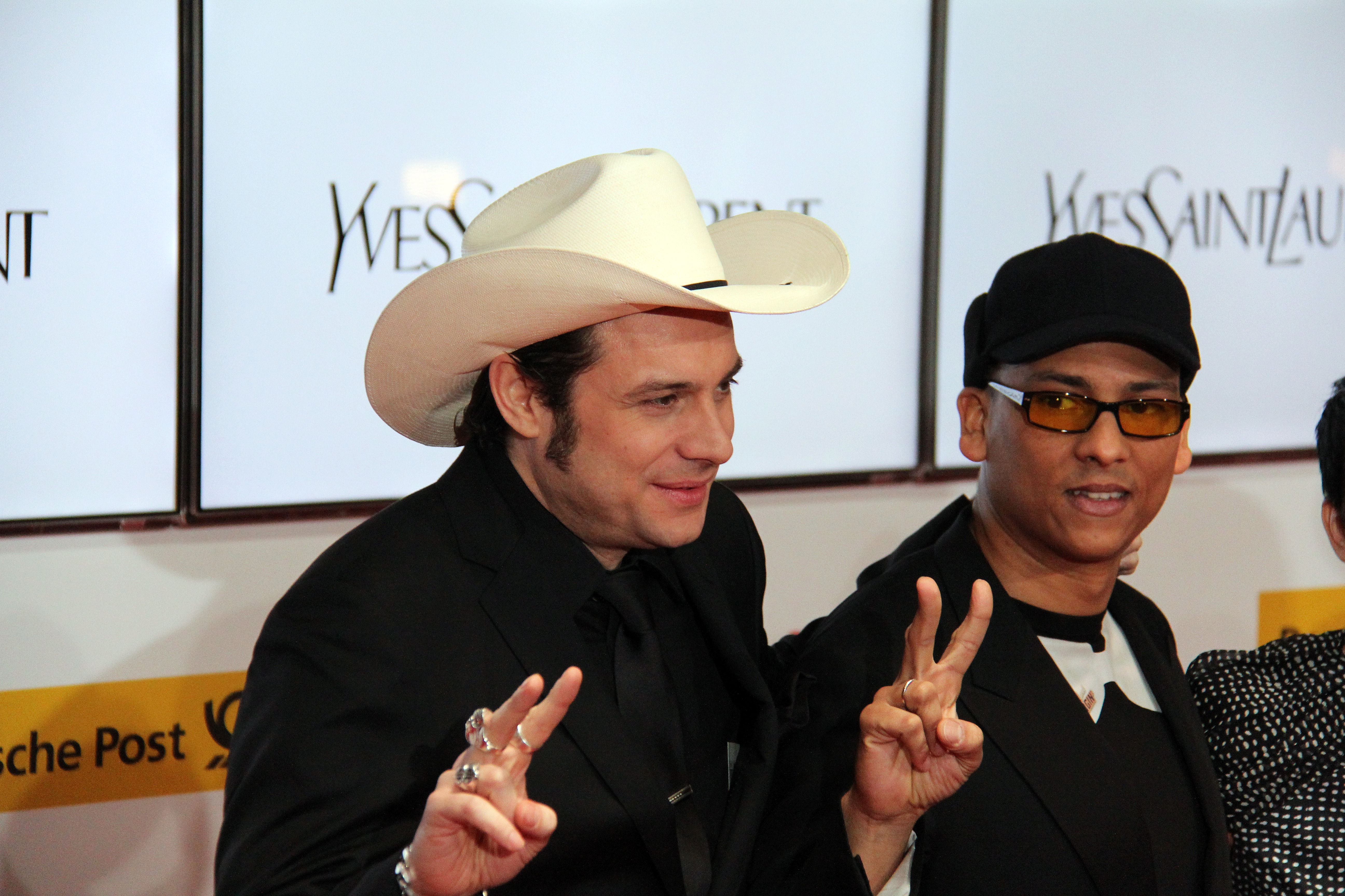 Das Coach-Team von The Voice of Germany (bei der Goldenen Kamera 2012